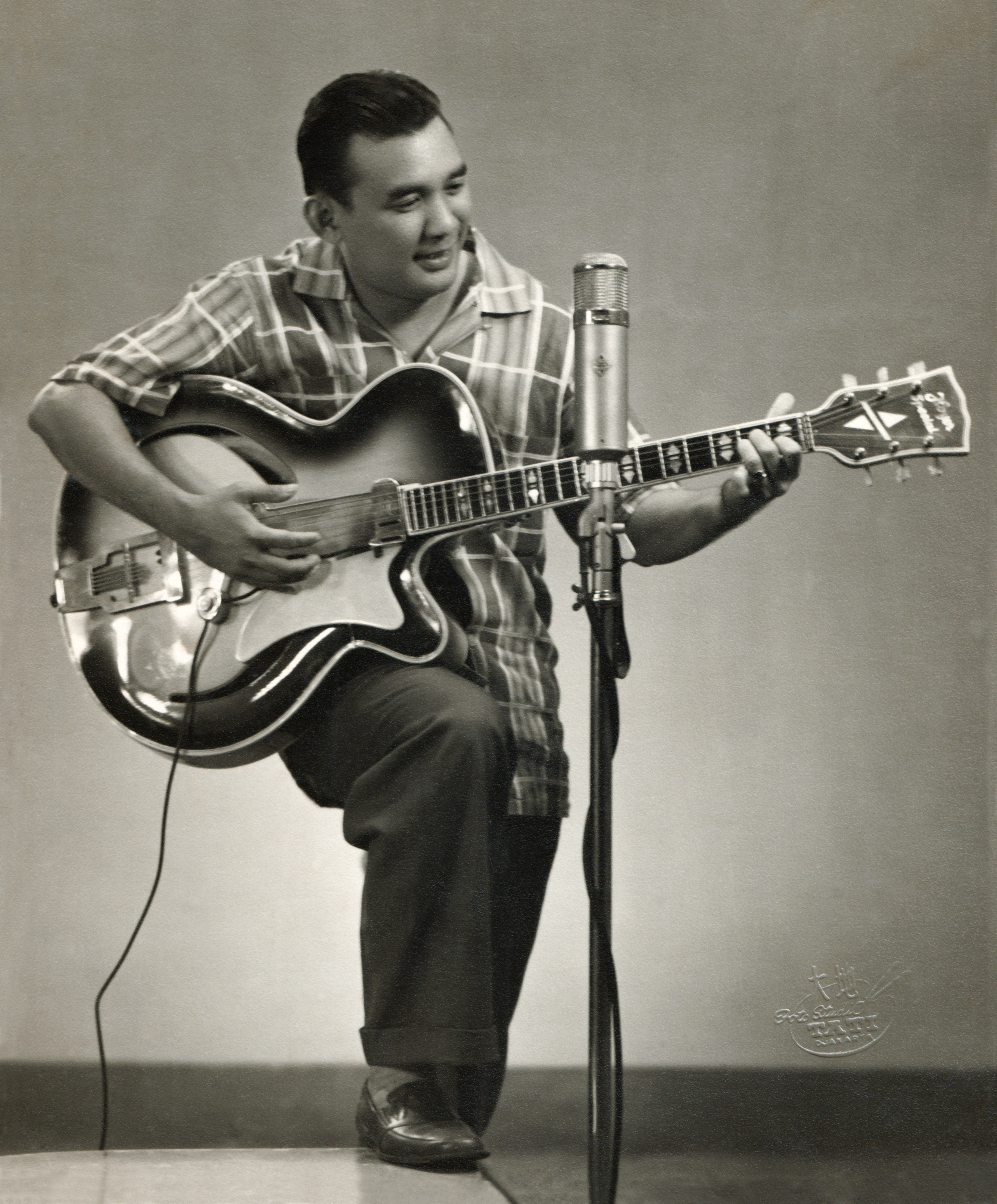 Batak singer Gordon Tobing (c. 1960), by Tati Studios. Restored from File:Gordon Tobing (c. 1960) - Before restoration.jpg